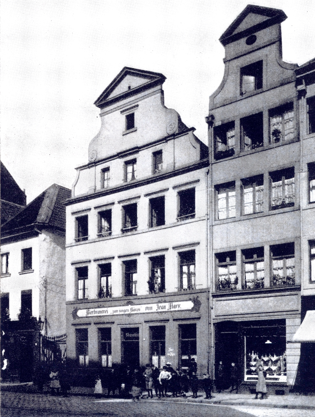 t